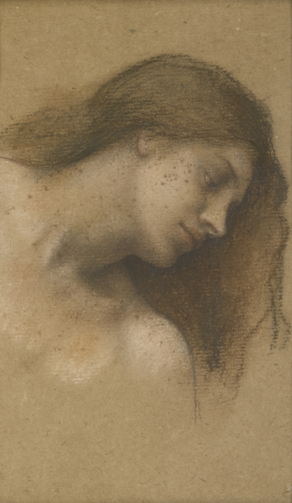 Study for one of the female figures in the painting Moonbeams Dipping into the Ocean (De Morgan Foundation, London).